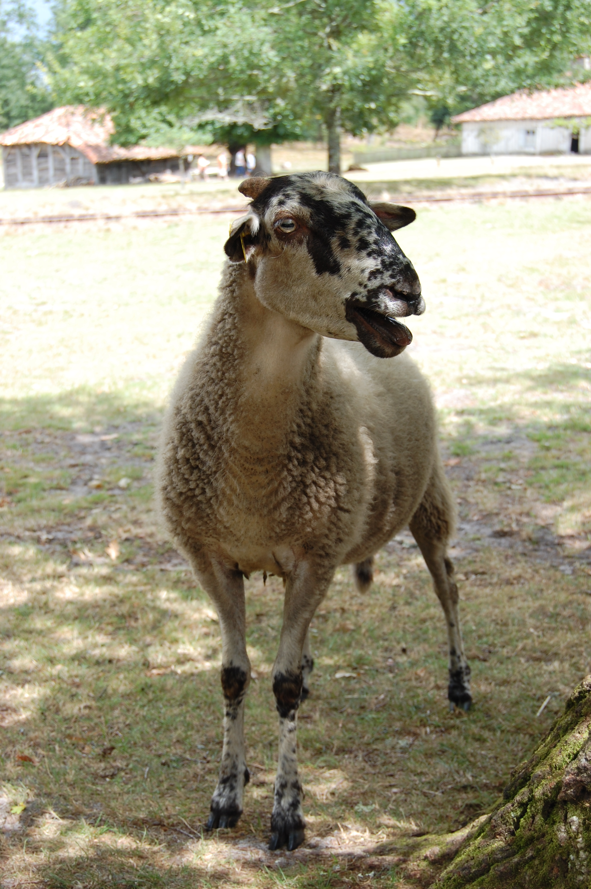 Marquèze